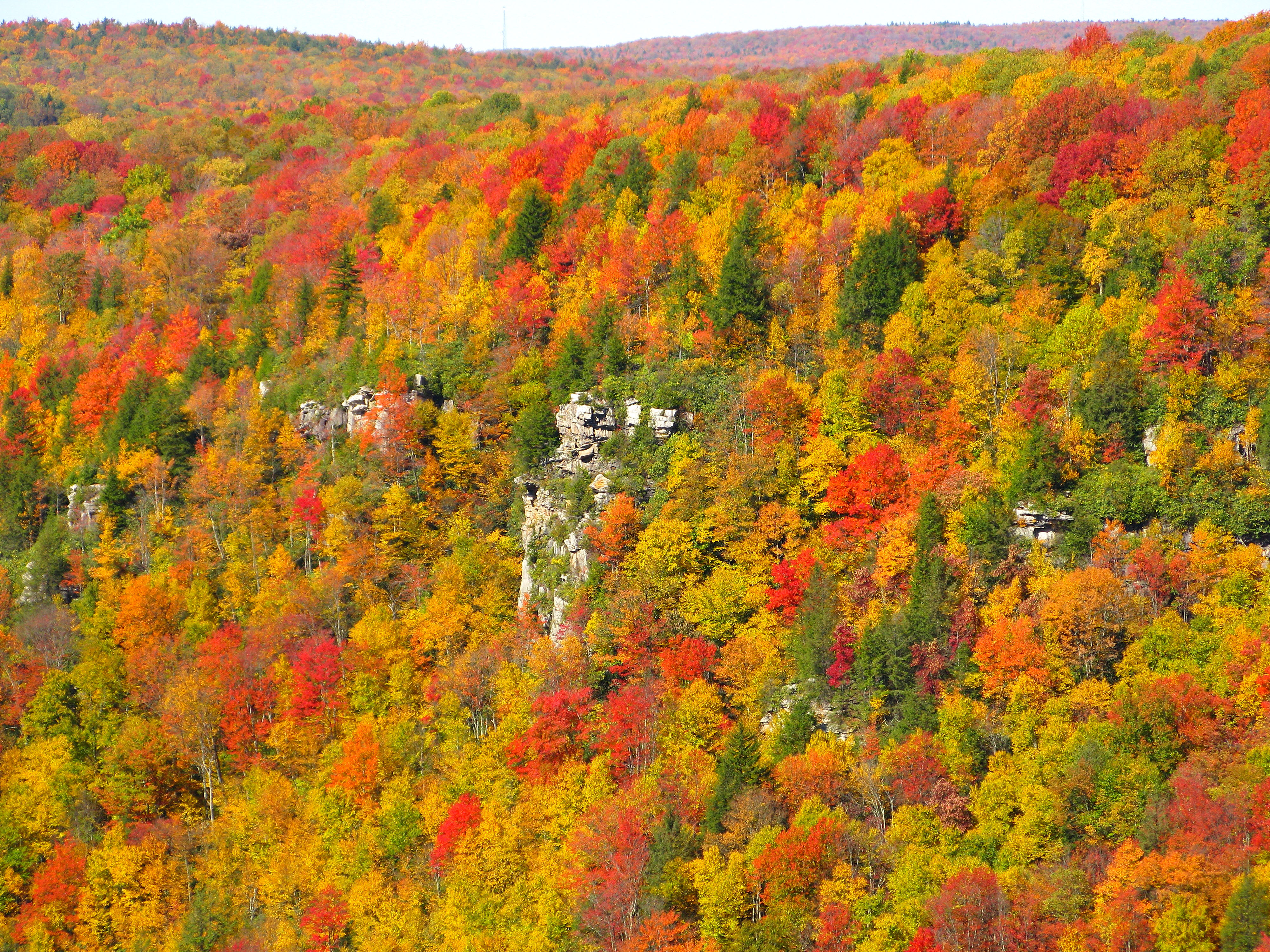 Blackwater Canyon Fall Colors